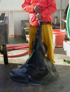 Atlantic torpedo (Torpedo nobiliana)